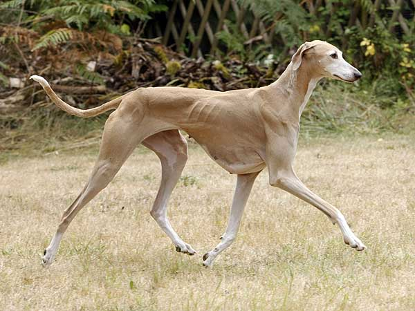 Sand color Azawakh female V'Amschisch de Garde-Epée